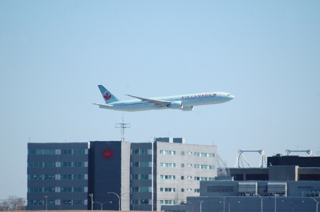 Air Canada Centre, Air Canada headquarters, and Air Canada Boeing 777-333ER - Montreal, Quebec. It is nicknamed "La Rondelle" ("The Puck").